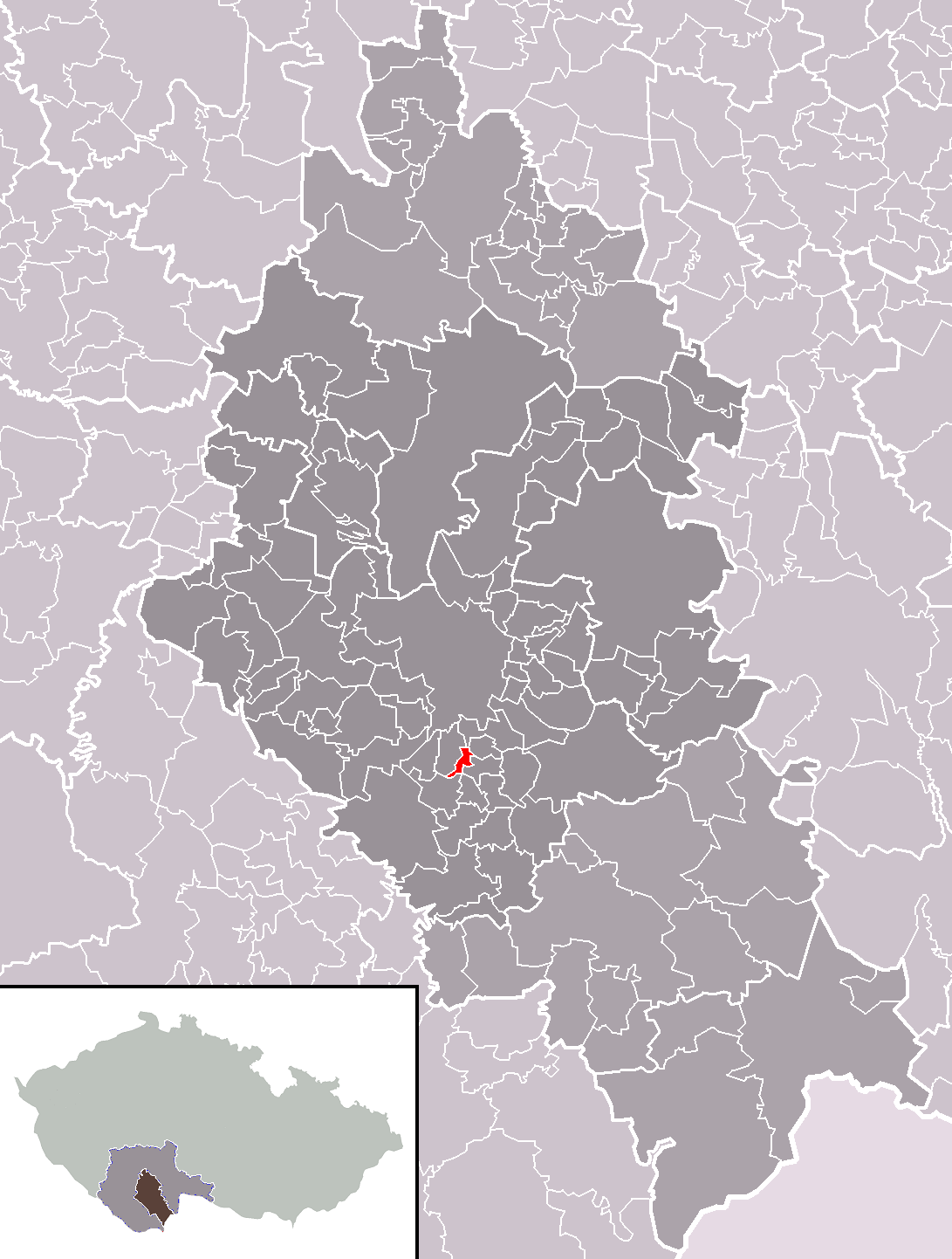 Location of Vidov municipality within České Budějovice District and administrative area of České Budějovice as a Municipality with Extended Competence.